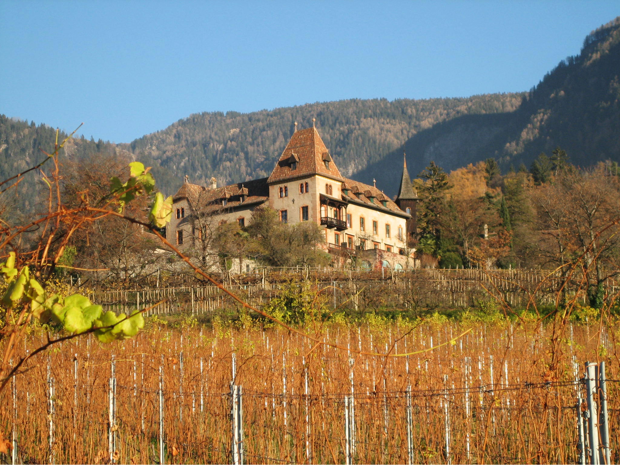 Labers Castle (Schloss Labers) in Meran South Tyrol